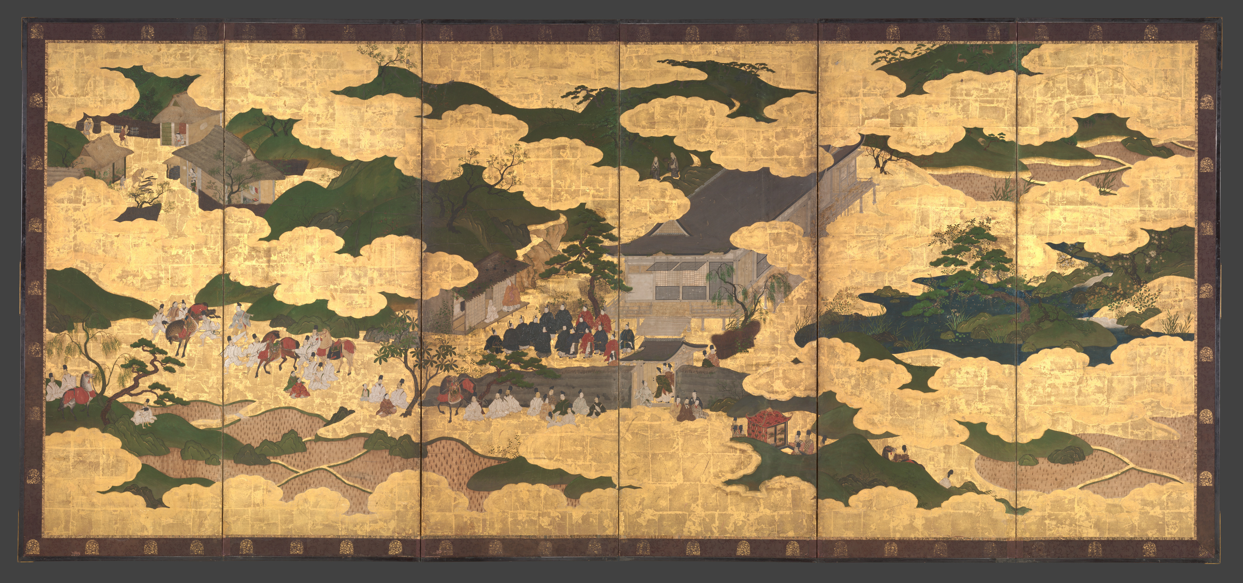 Japan; Screens; Screens